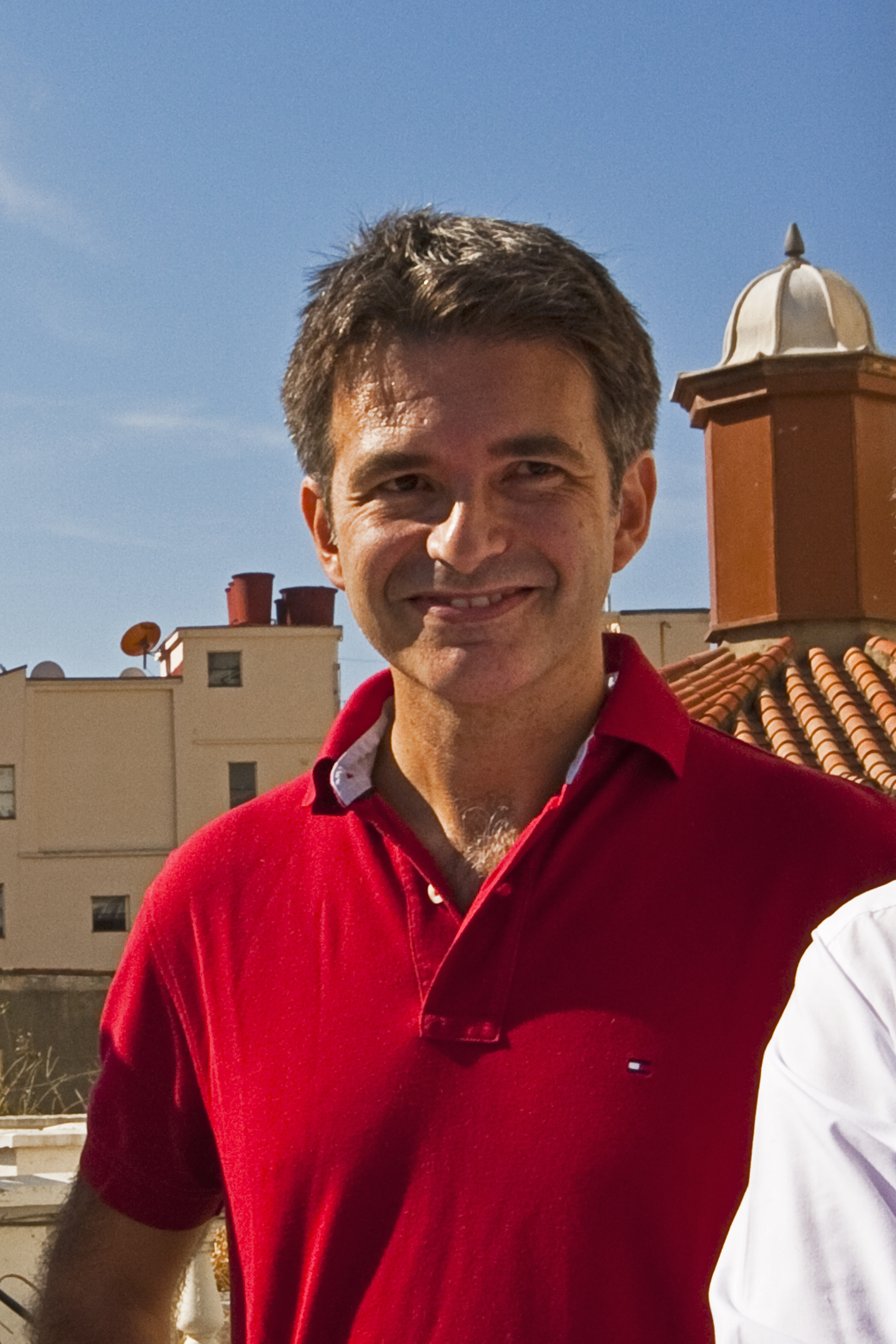 Keith Azopardi at the Gibraltar National Day Political Rally, 10 September 2011.